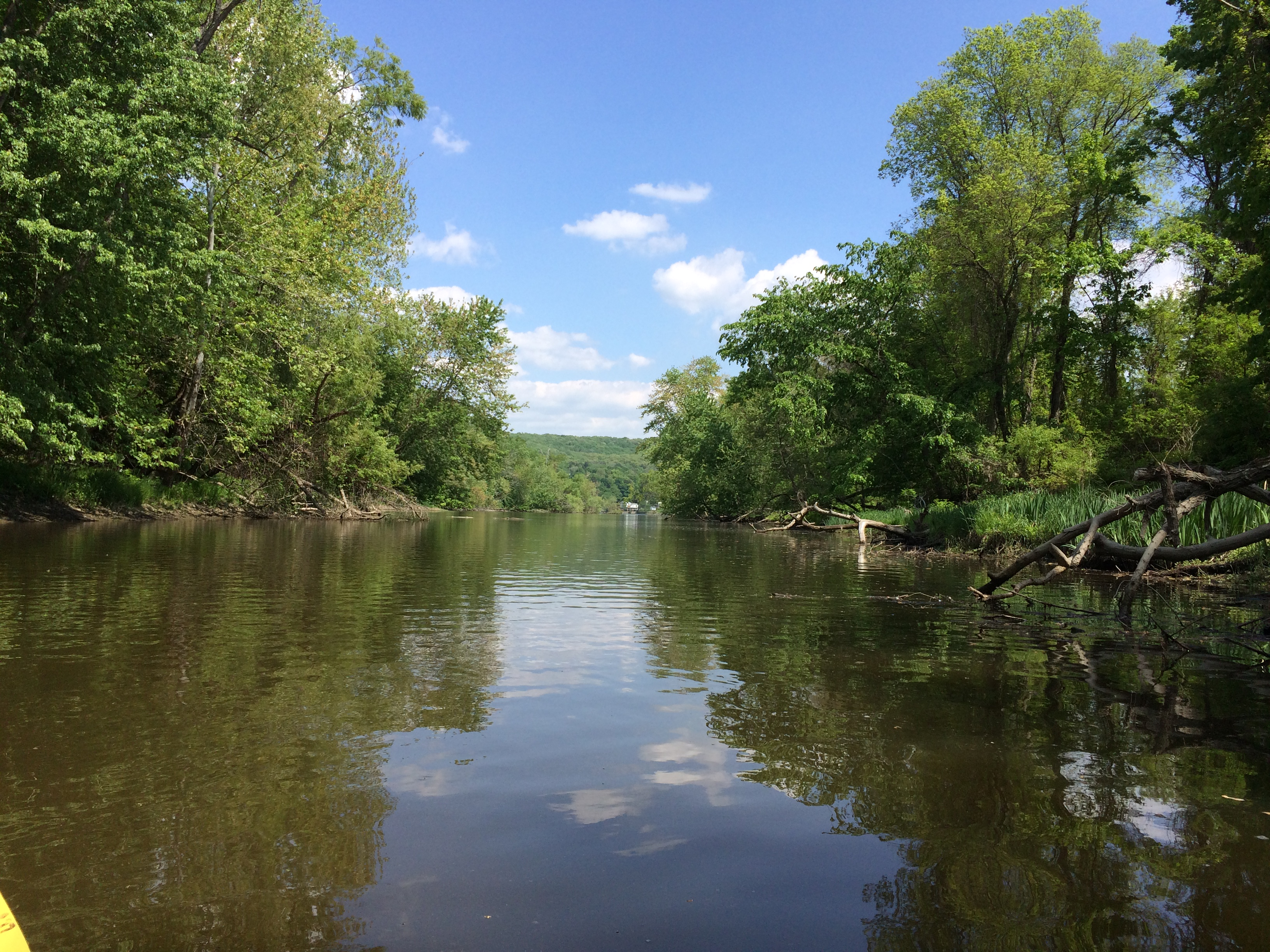 Dart Island State Park is on the left side (Eastern shore) of this narrow protected cove off of the Connecticut River.